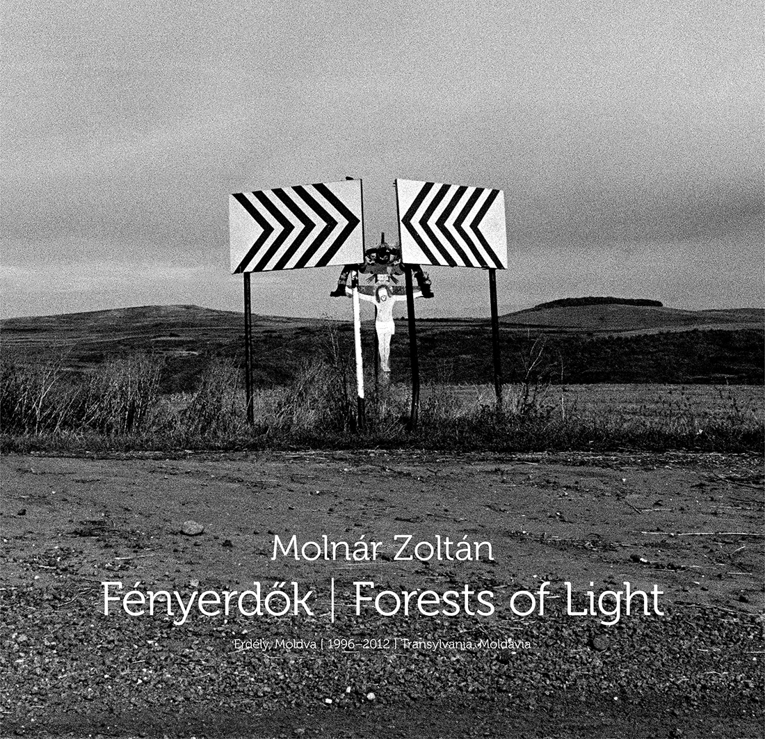 Photo title: Mezőség, Transylvania taken in 1997 by Zoltán Molnár and The Light forests book cover (Published in 2012)